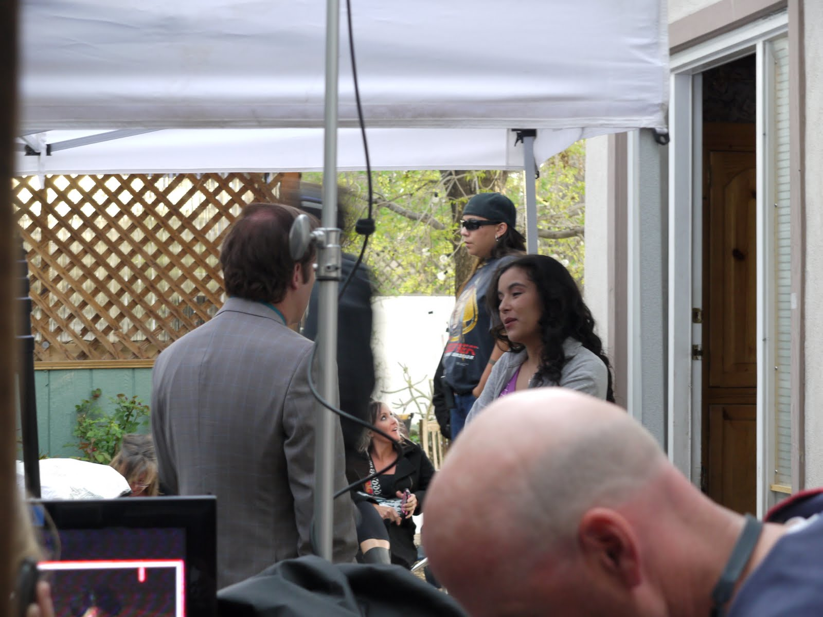 Breaking Bad Season 4